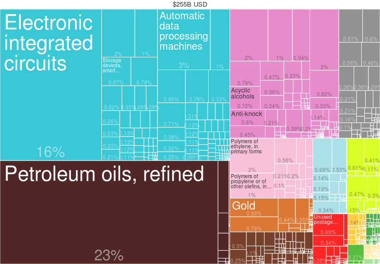 2014 Singapore Products Export Treemap